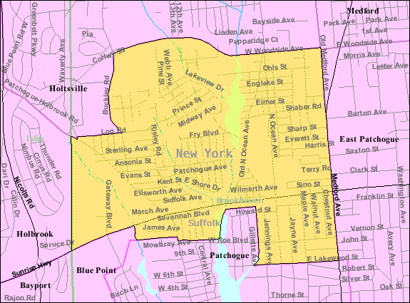 U.S. Census 2000 reference map for North Patchogue